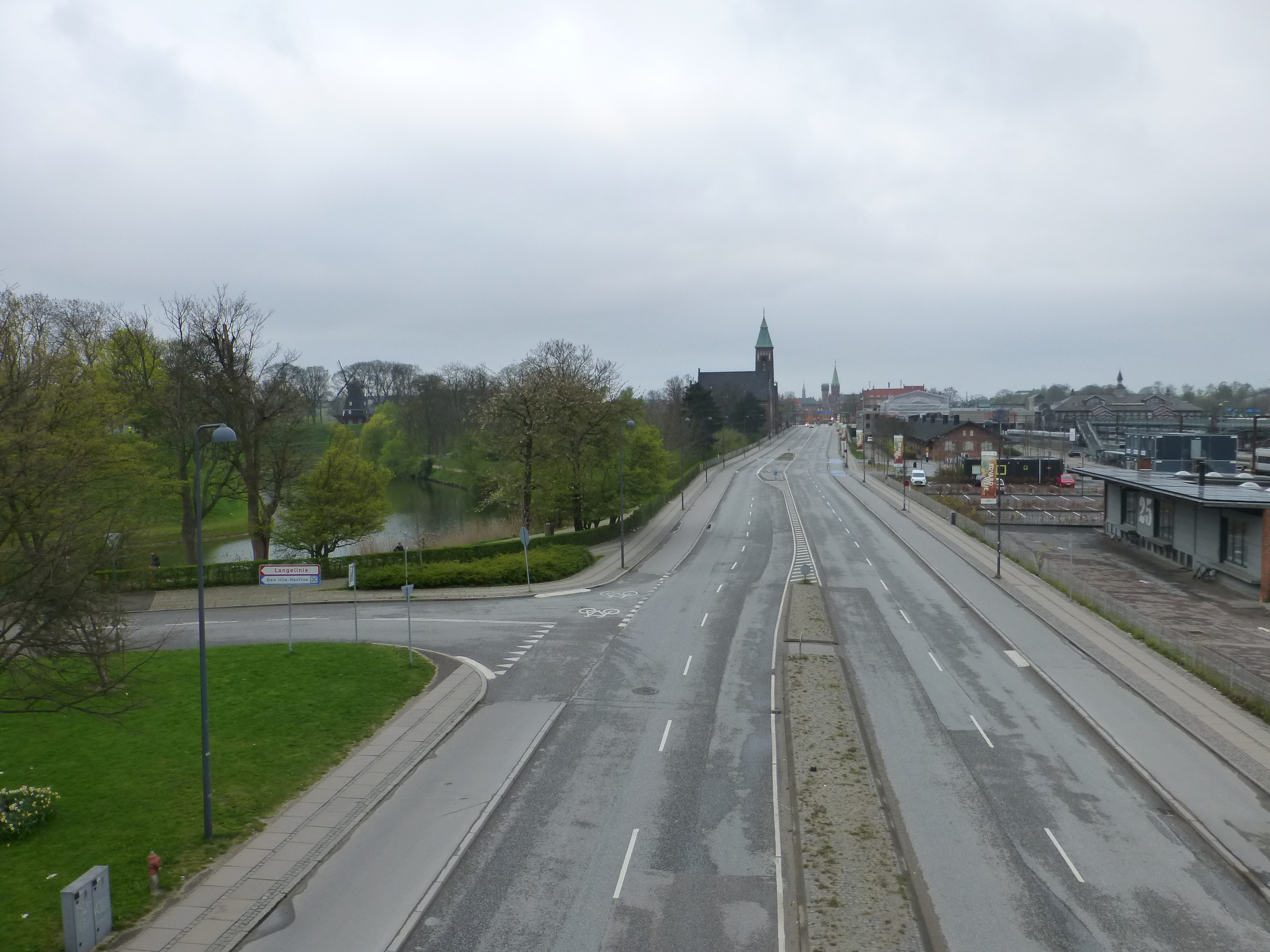 The street Folke Bernadottes Alle seen from Langeliniebroen in Østerbro in Copenhagen.